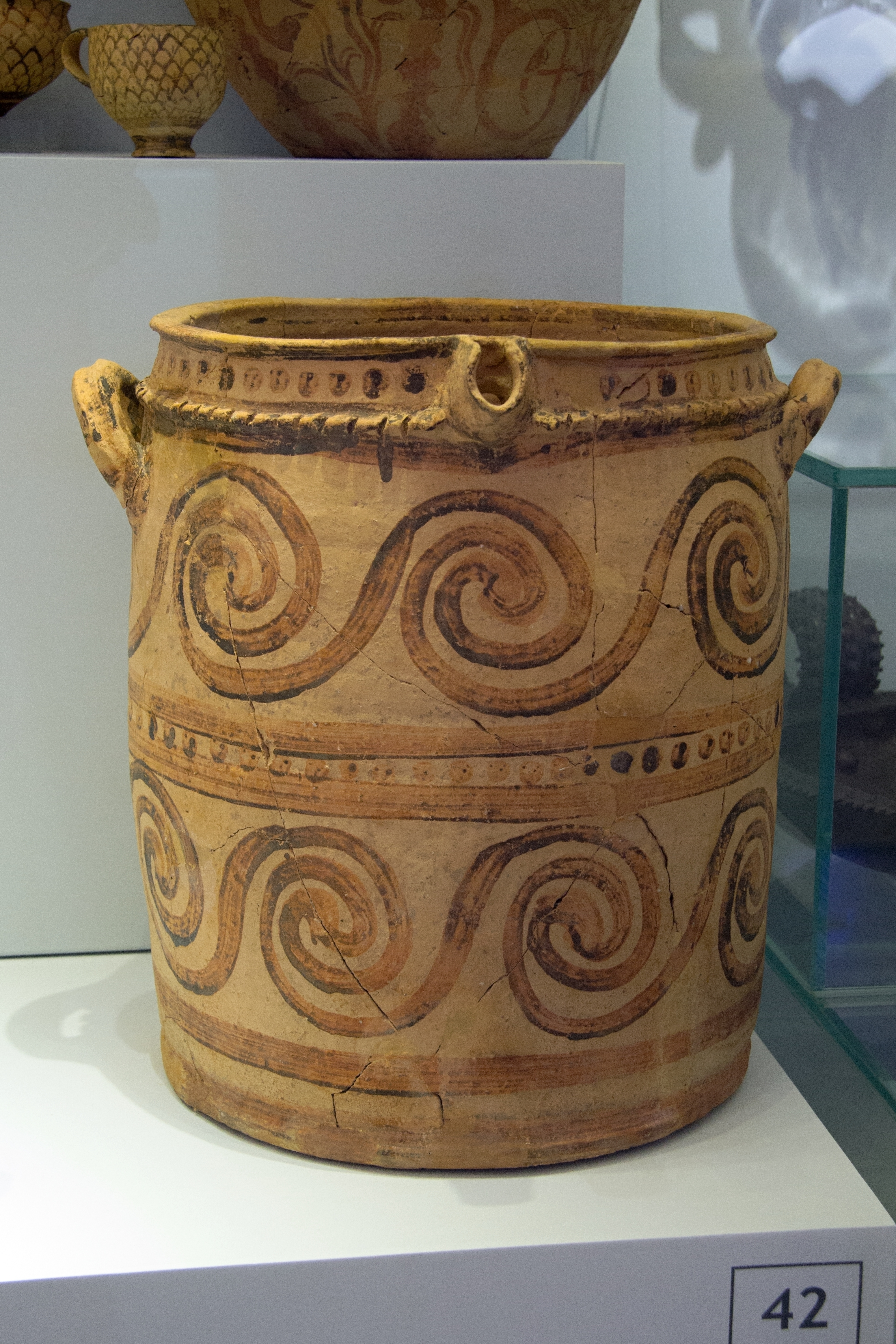 Vessel from Palace in Archanes, Cerete, 1600-1450 BC. Archaeological Museum of Heraklion, case 42.